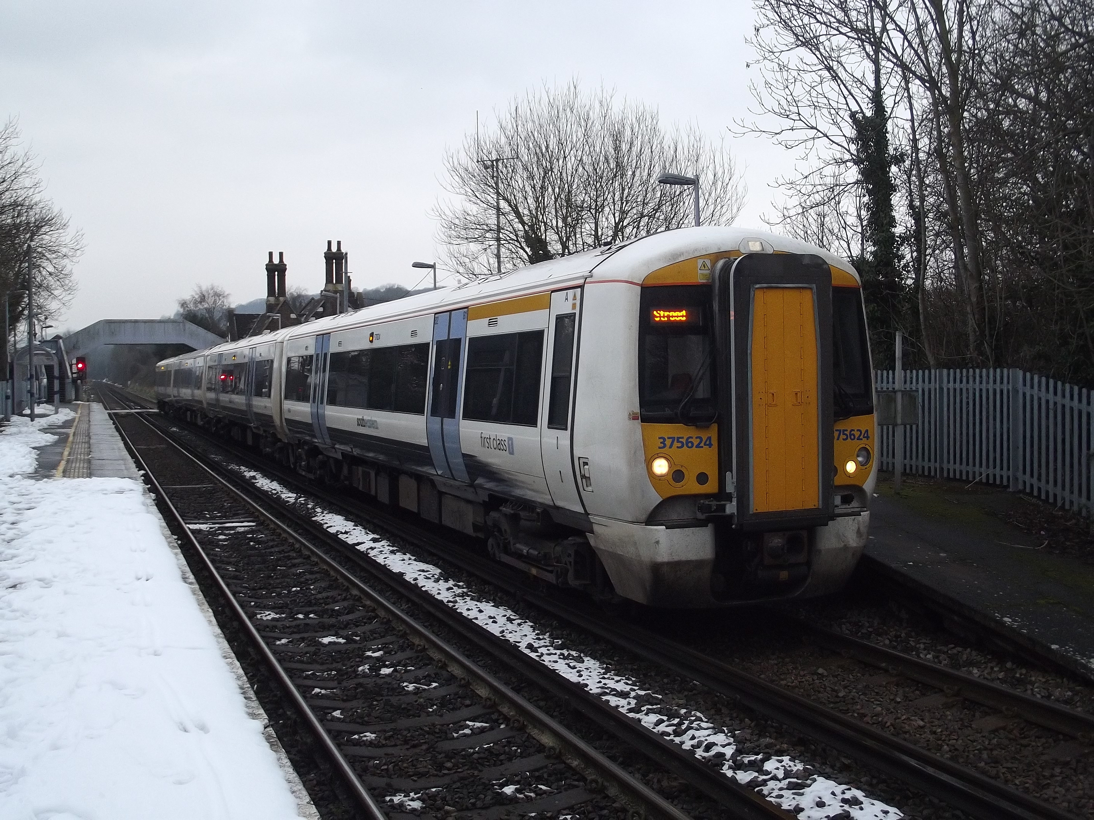 375624 Makes a rare appearance for the second day in a row, working 2T19 09:03 Tonbridge - Strood. Copyright Class466Cuxton/Glenn Doig's Photography